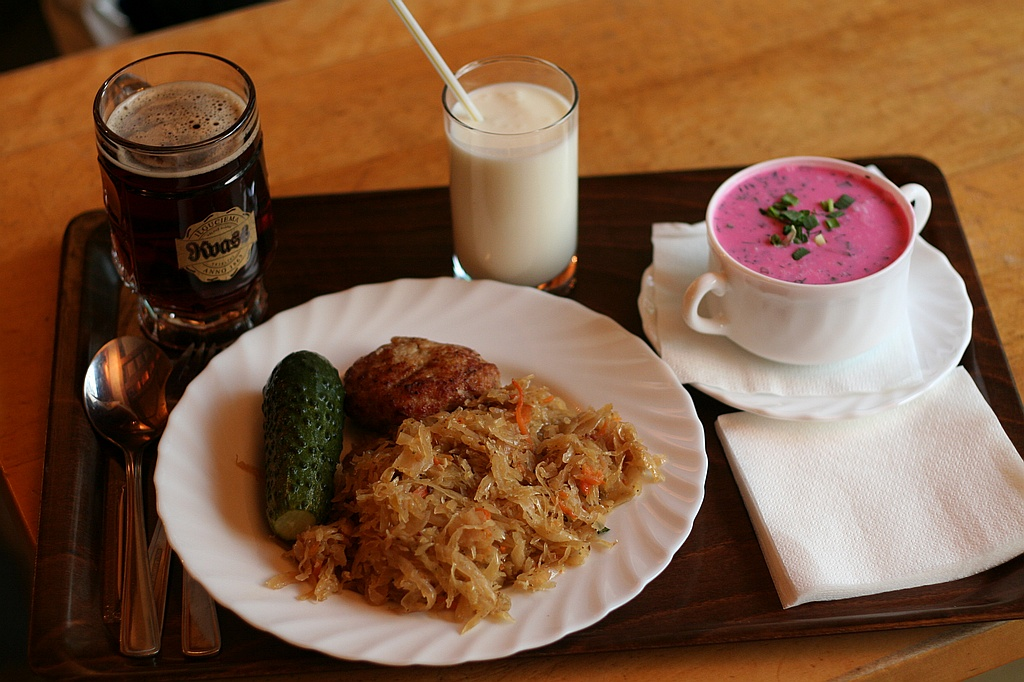 Latvian dinner at Lido. A cold soup, pot cooked cabbage, a cotlette, a gjerkin, sour milk (kefir) and some Russian kvas.